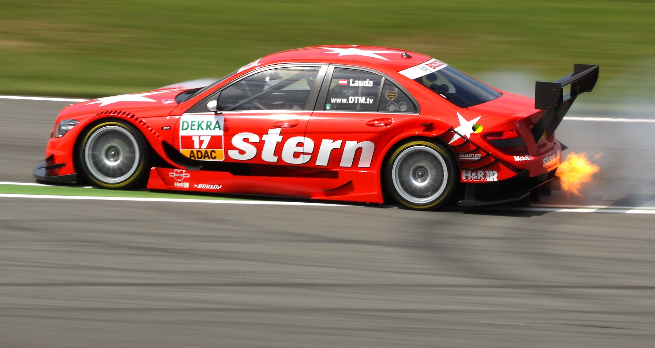 DTM car Mercedes-Benz Season 2009 (C-Class, W204), Mathias Lauda (driver).